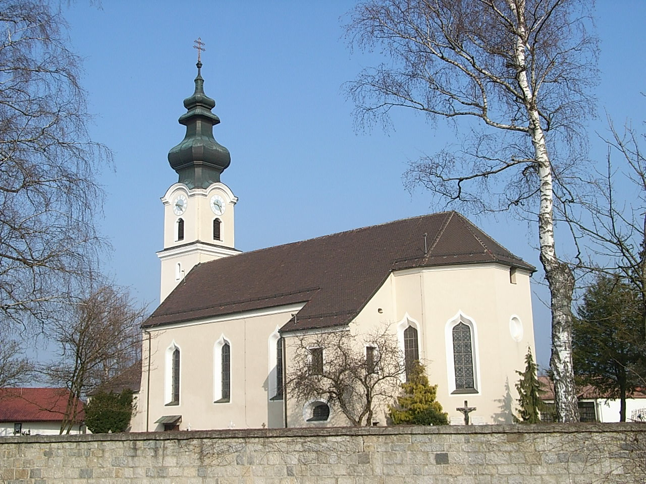 Neukirchen vorm Wald, St Martin Parish Church from south-east.